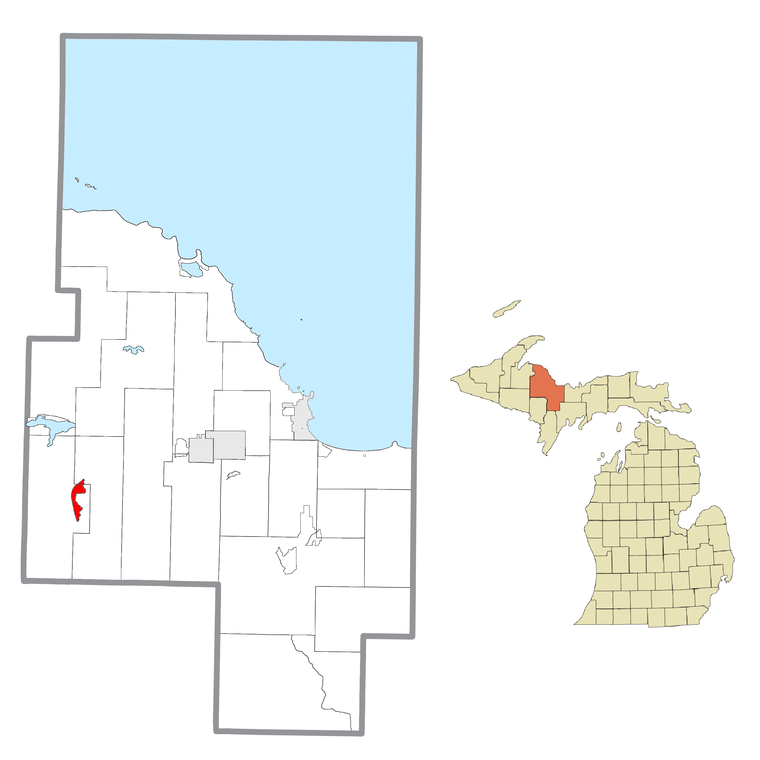 Republic, MI